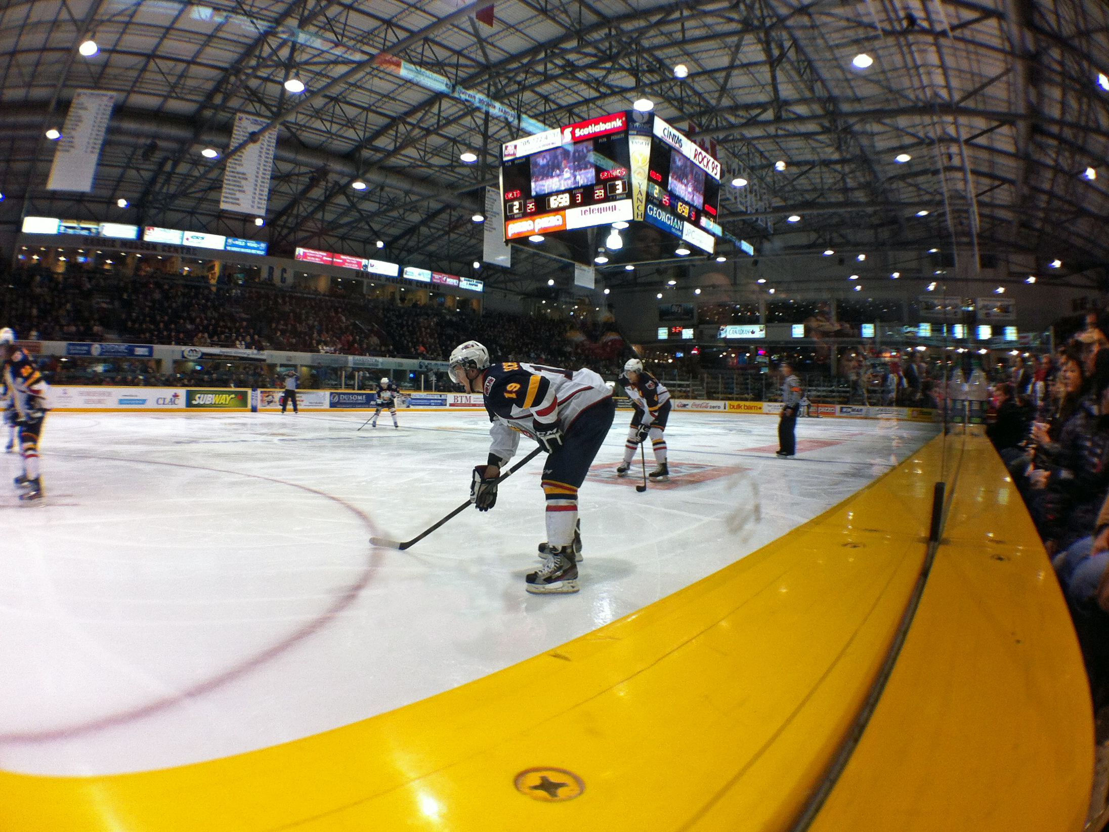 Mark Scheifele takes a faceoff for the Barrie Colts in 2012, later in the play scoring the game tying goal.